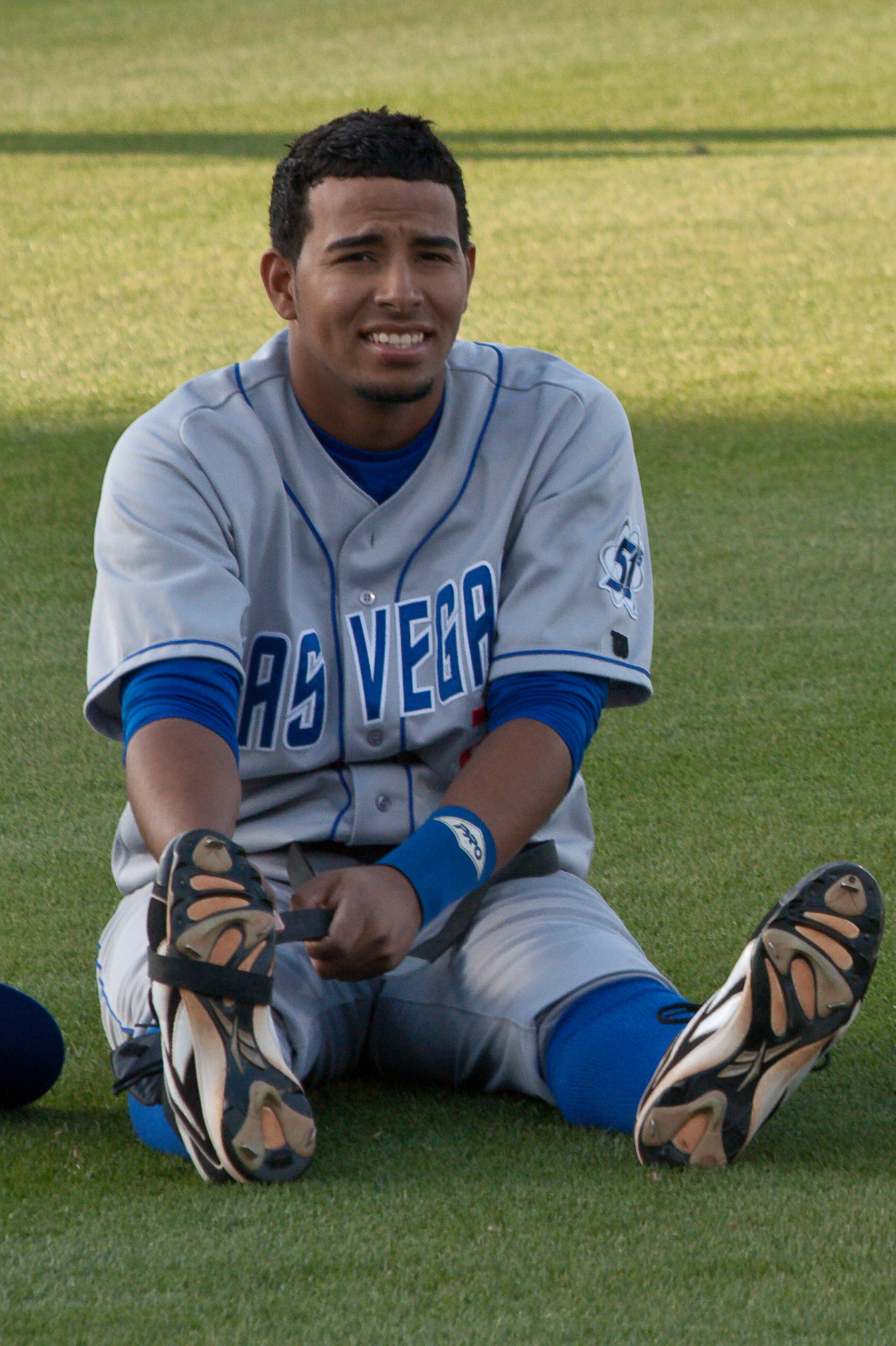 Description Ángel Sánchez of the Las Vegas 51s, warming up at Raley Field Date25 April 2009SourceOwn workAuthorFabrictramp / talk to mePermission(Reusing this file) I own the copyright, and I give permission for its use 14:54, 30 April 2009 . . Fabrictramp . . 1,349×2,026 (2.69 MB) Ángel Sánchez of the Las Vegas 51s, warming up at Raley Field